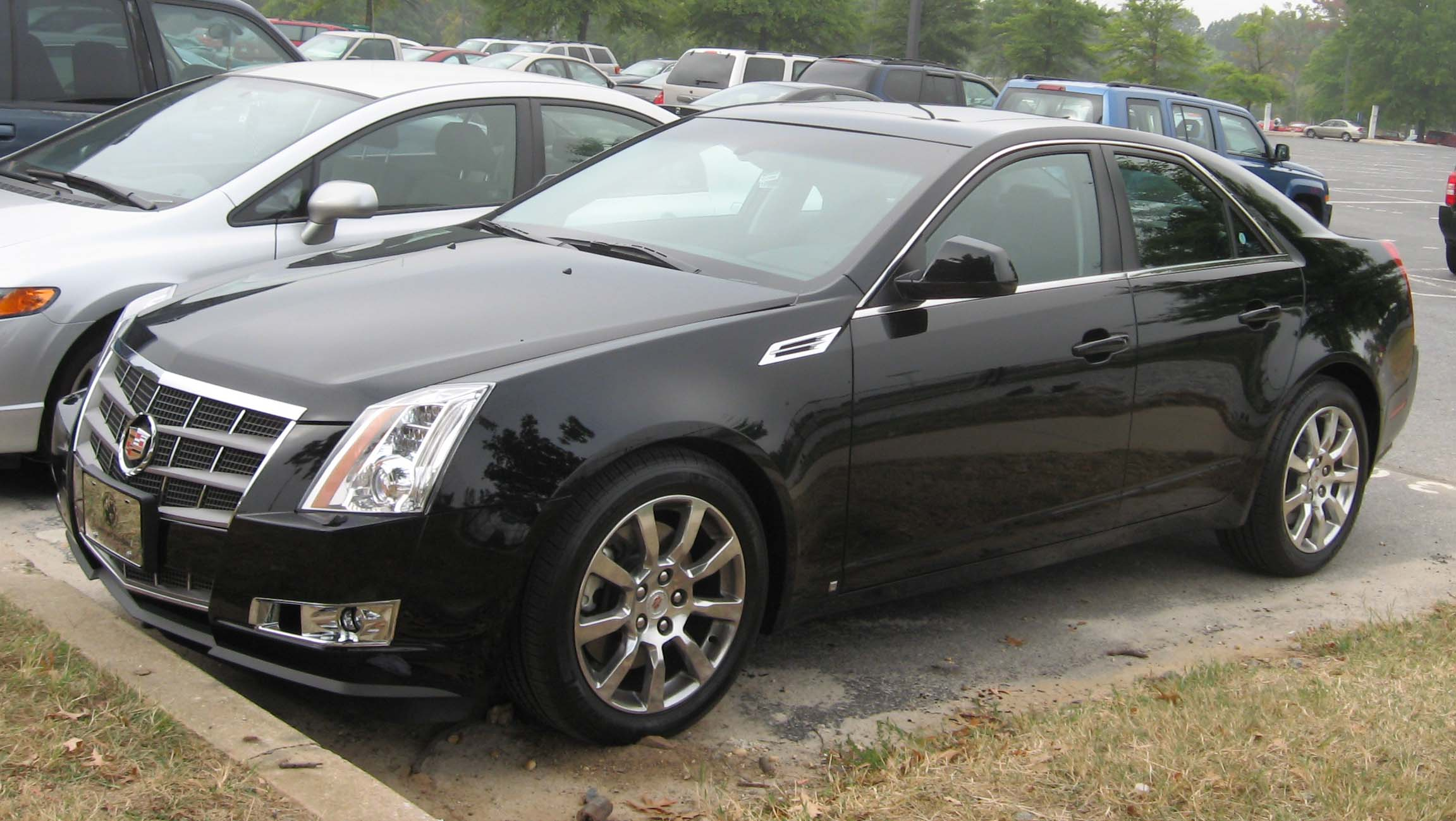 2008 Cadillac CTS4 photographed in College Park, Maryland, USA.